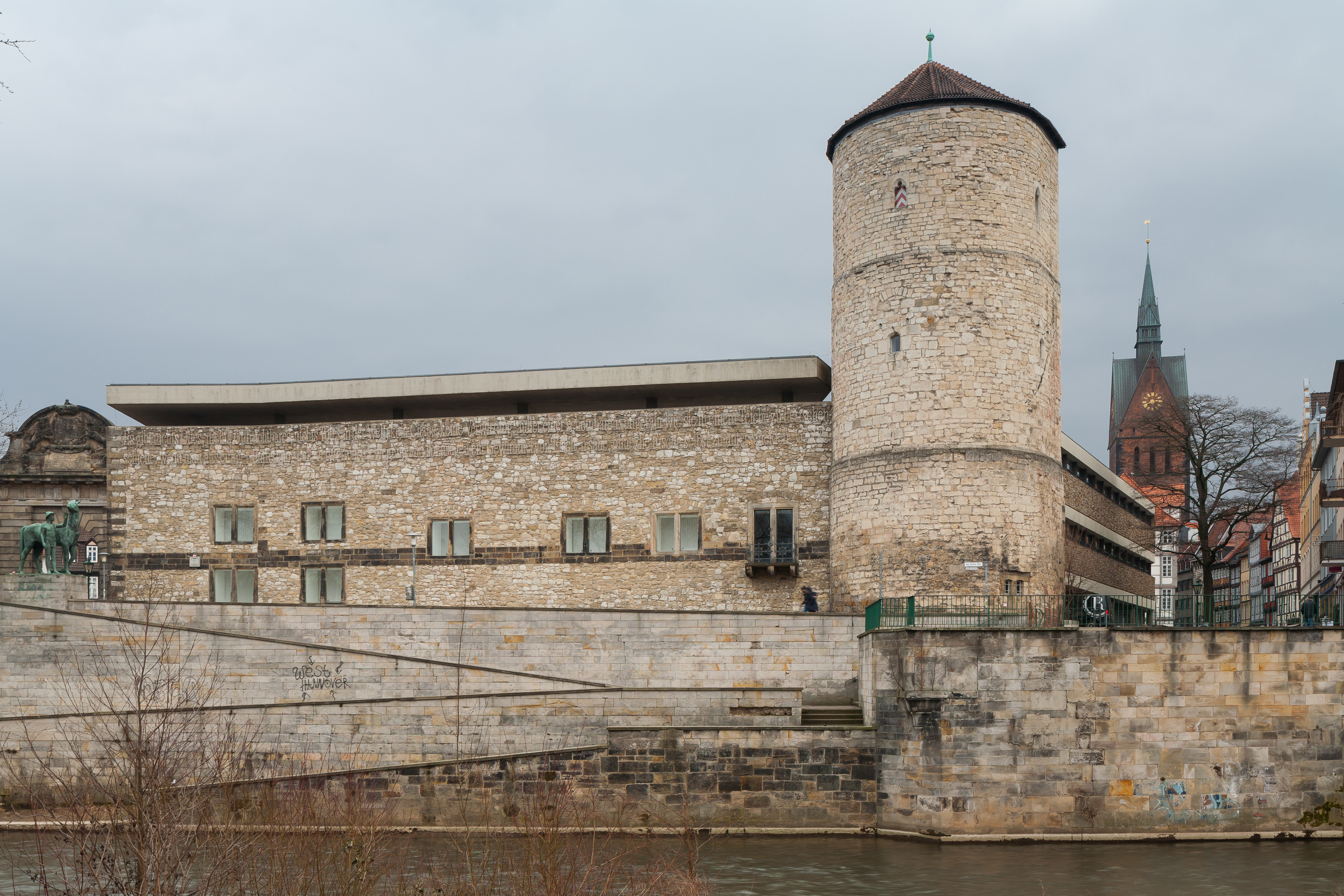 Beginenturm tower and museum for history located at Am Hohen Ufer in Mitte district of Hanover, Germany.